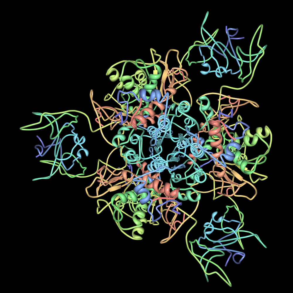 Crystal and molecular structures of native and CTP-liganded aspartate carbamoyltransferase from Escherichia coli. Honzatko, R.B., Crawford, J.L., Monaco, H.L., Ladner, J.E., Ewards, B.F., Evans, D.R., Warren, S.G., Wiley, D.C., Ladner, R.C., Lipscomb, W.N.